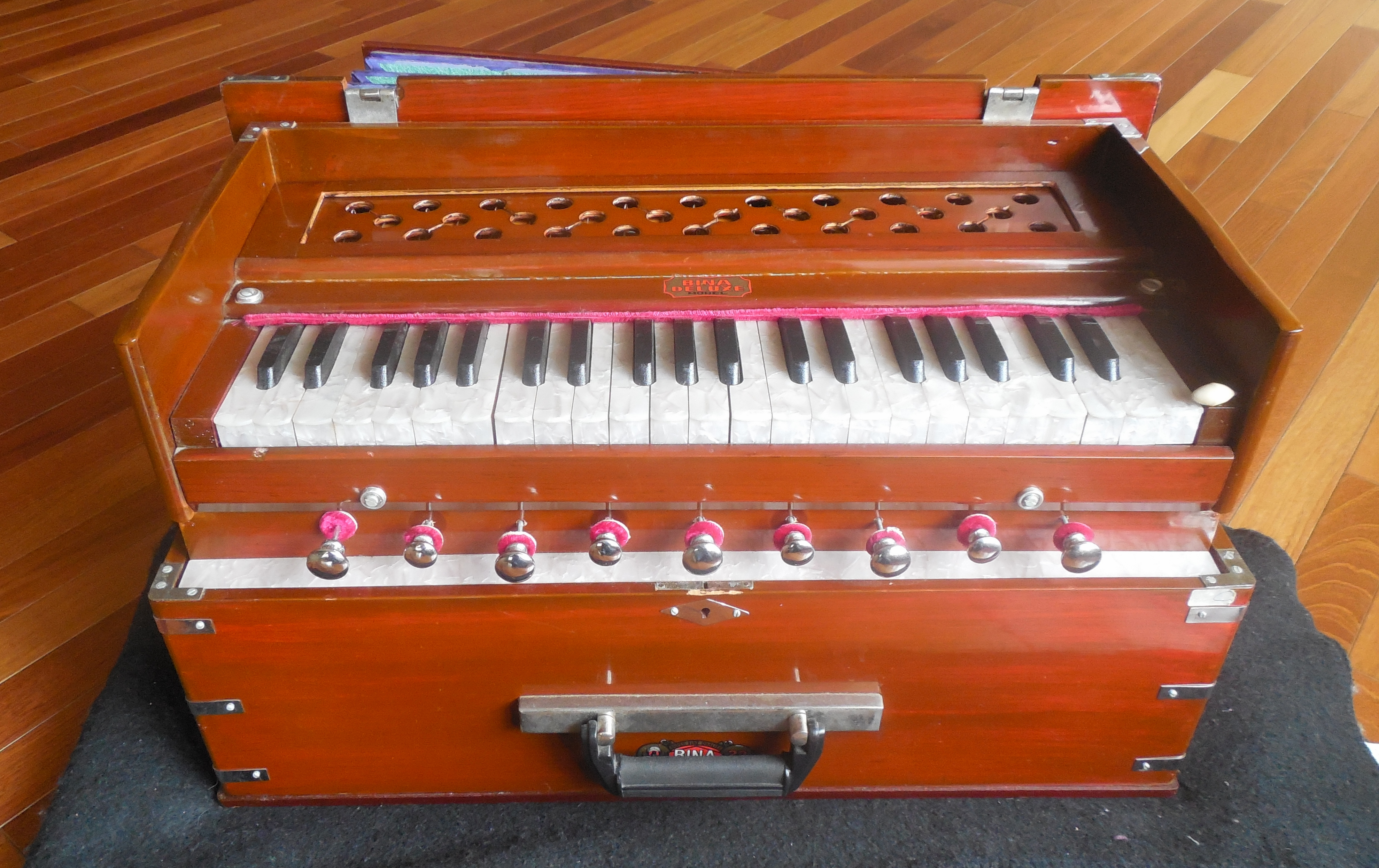 Three octave portable harmonium with triple reeds and 9 air stops